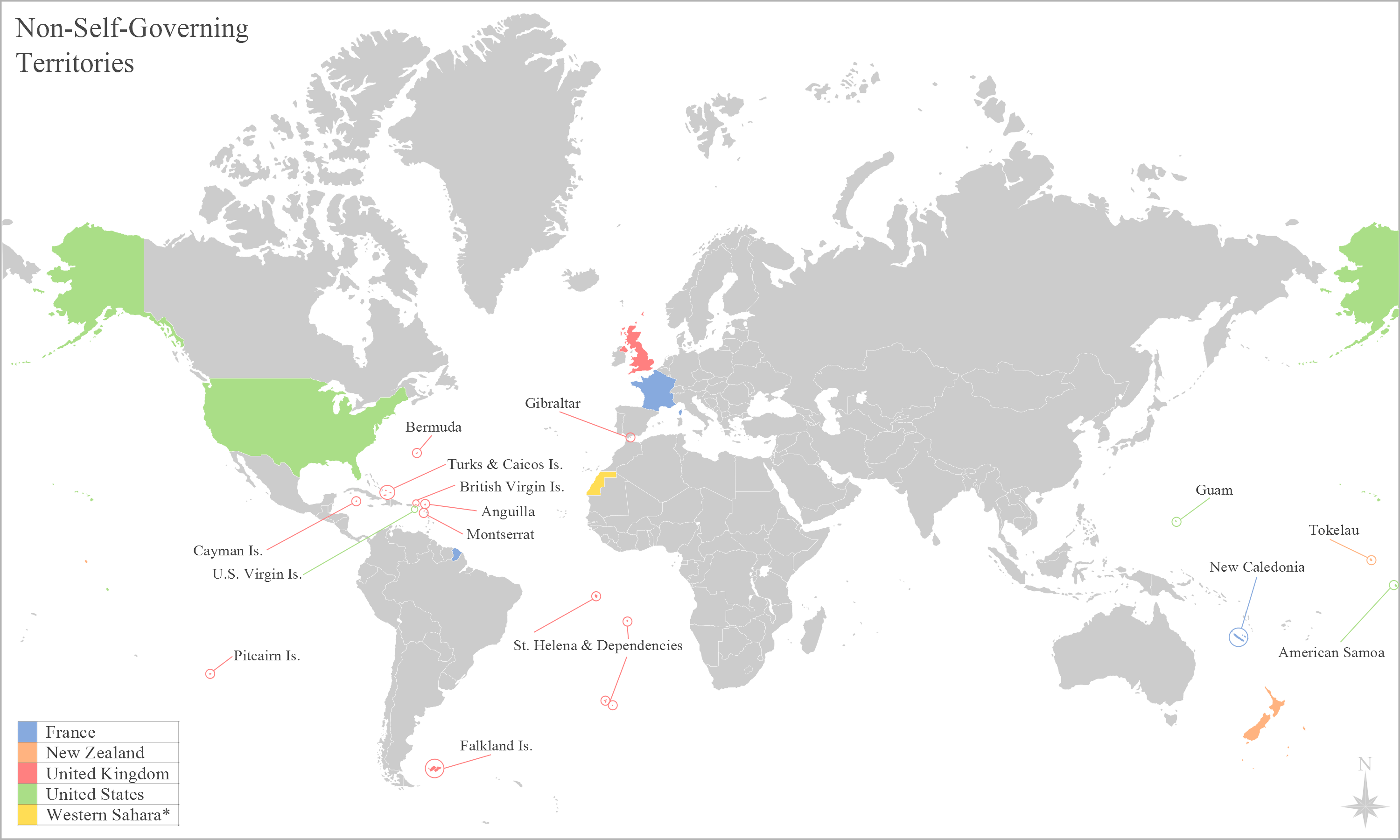 United Nations list of non-self-governing territories.